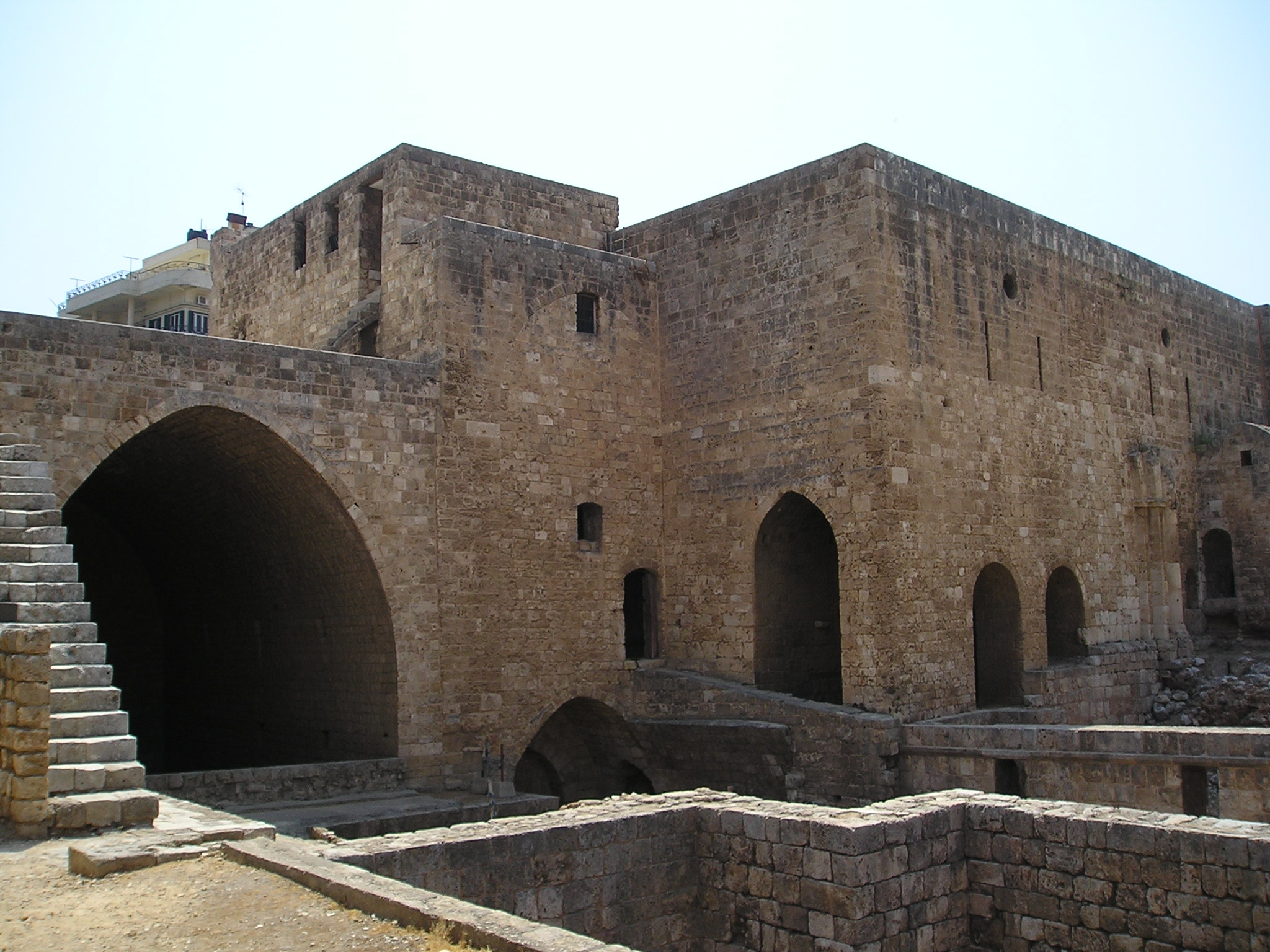 Tripoli, Lebanon - Citadel of Raymond de Saint-Gilles